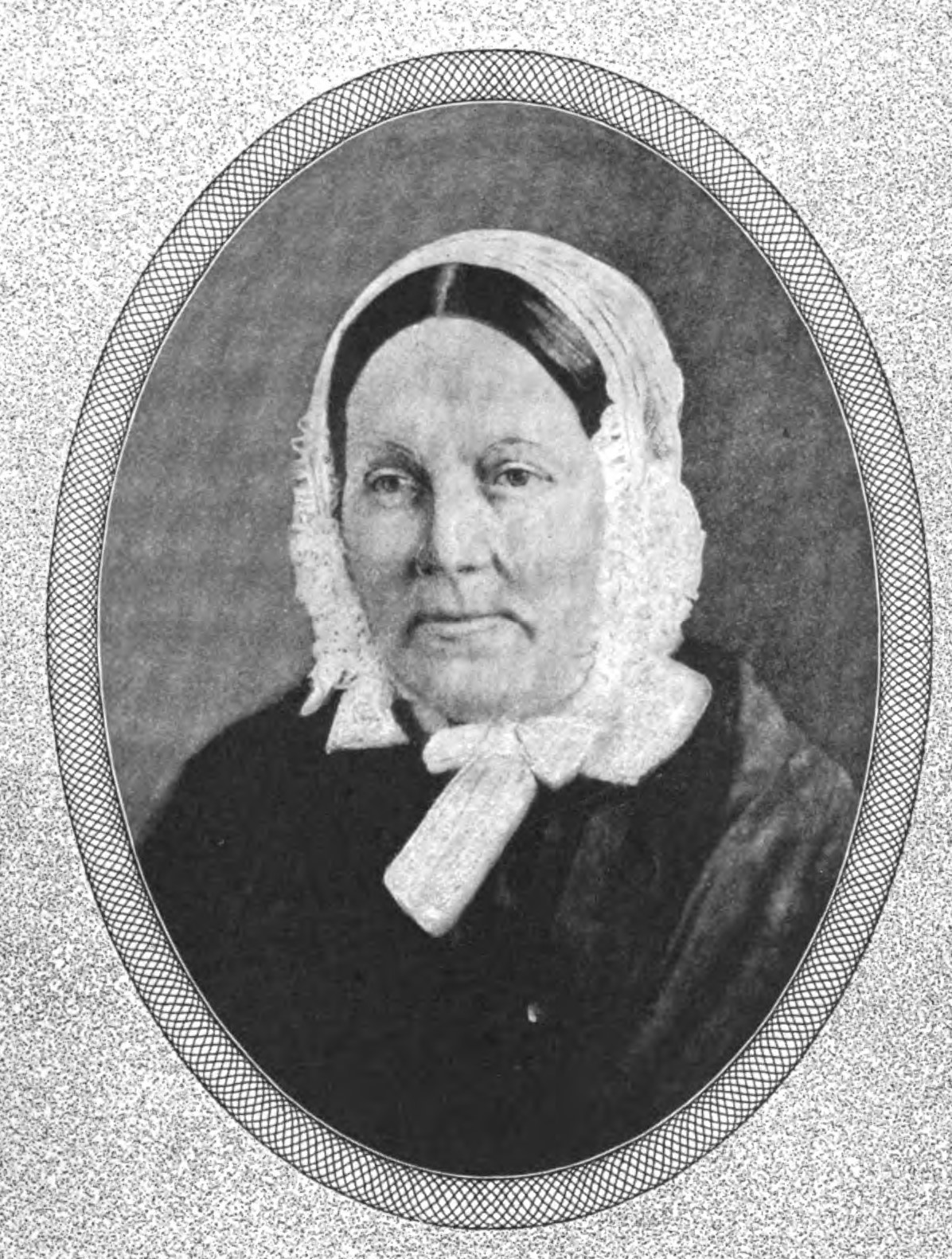 Elizabeth Patterson Duncan Baker (d. 6 June 1875), second wife of Mark Baker, father of Mary Baker Eddy, founder of Christian Science, from a tintype. The couple married in 1850.